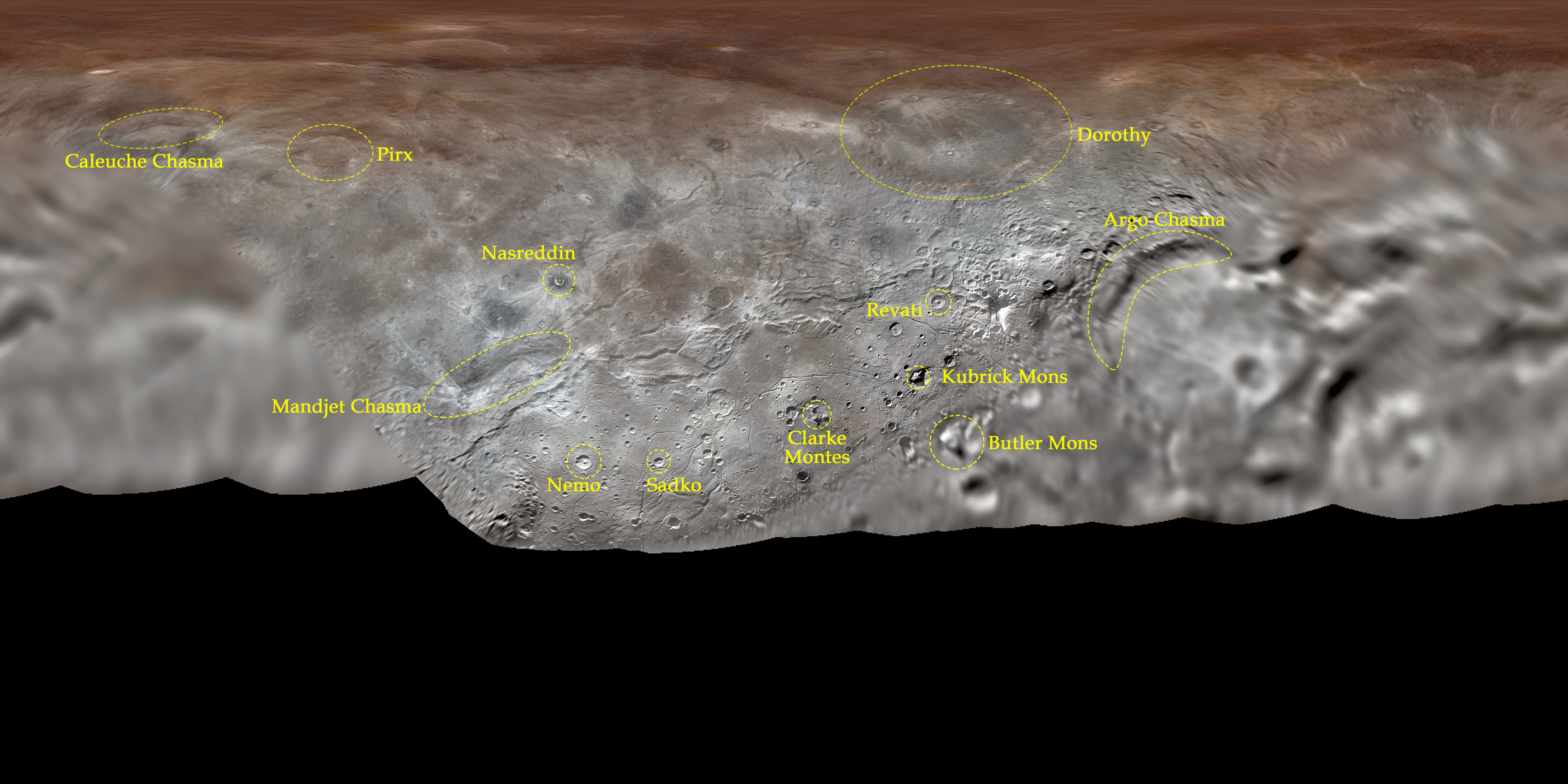 Map projection of Charon, the largest of Pluto’s five moons, annotated with its first set of official feature names. With a diameter of about 1215 km, the France-sized moon is one of largest known objects in the Kuiper Belt, the region of icy, rocky bodies beyond Neptune.